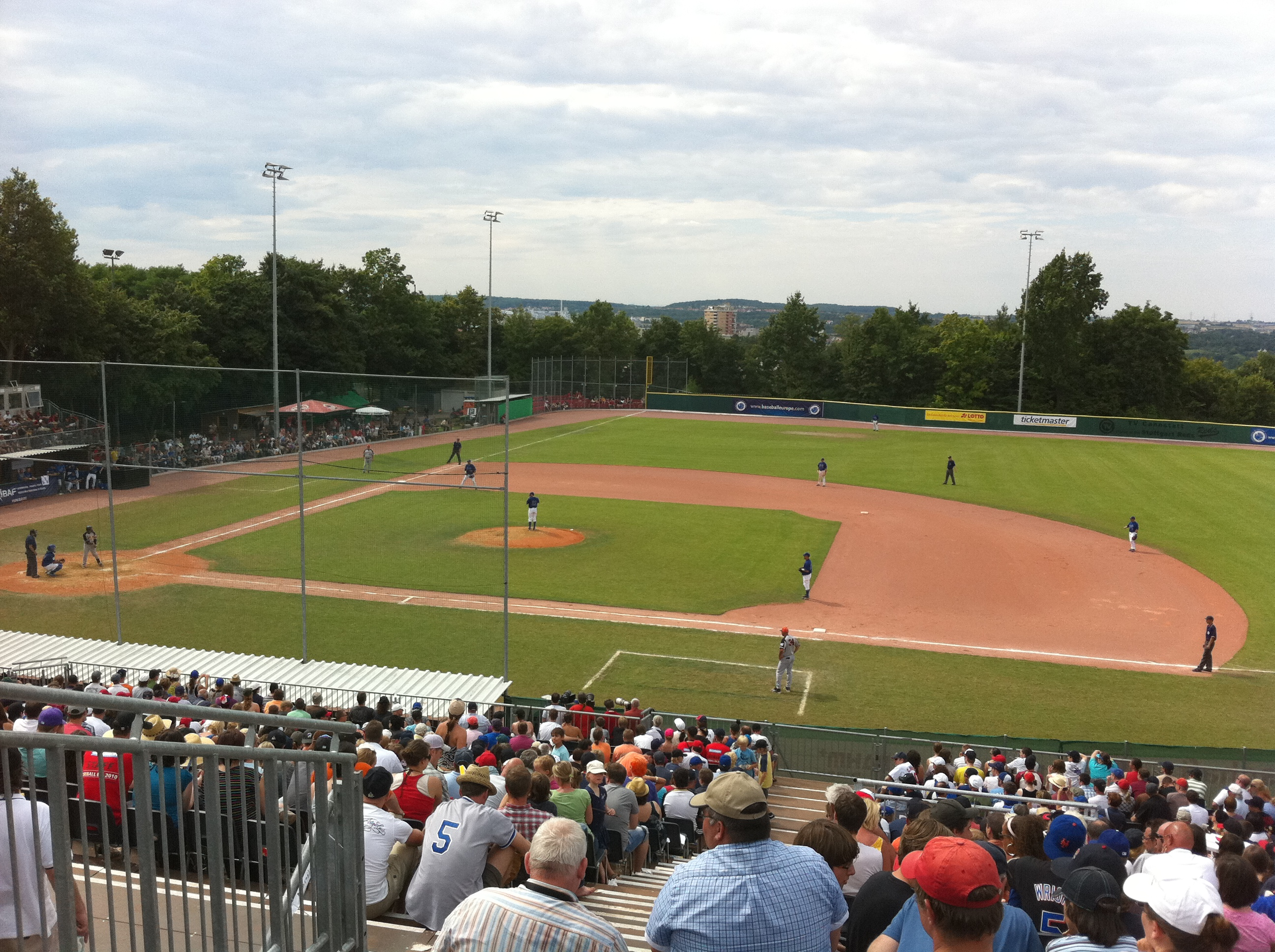 2010 European Baseball Championship final between Italy and the Netherlands on August 1, 2010 in the Reds Ballpark am Schnarrenberg in Stuttgart. Back Camera